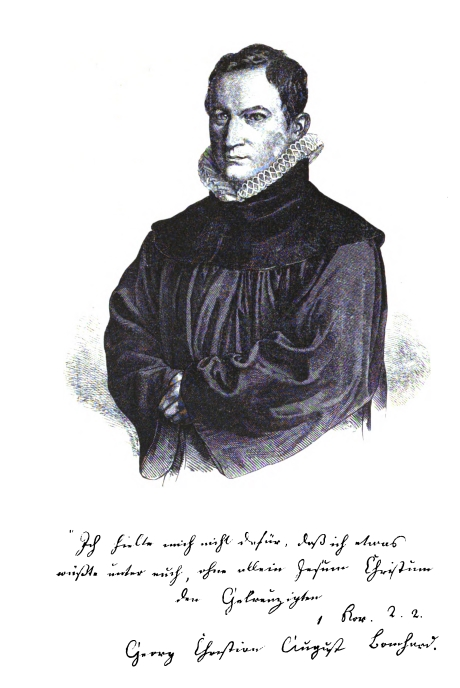 Georg Christian August Bomhard, German protestant clergyman